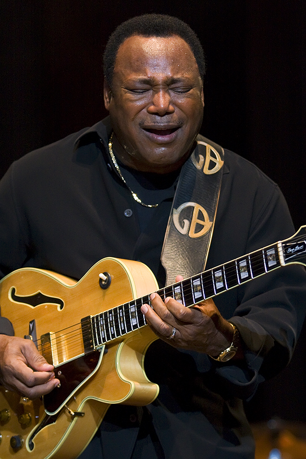 George Benson. Escenario Puerta del Ángel (Madrid), 06/07/09. Veranos de la Villa 2009.